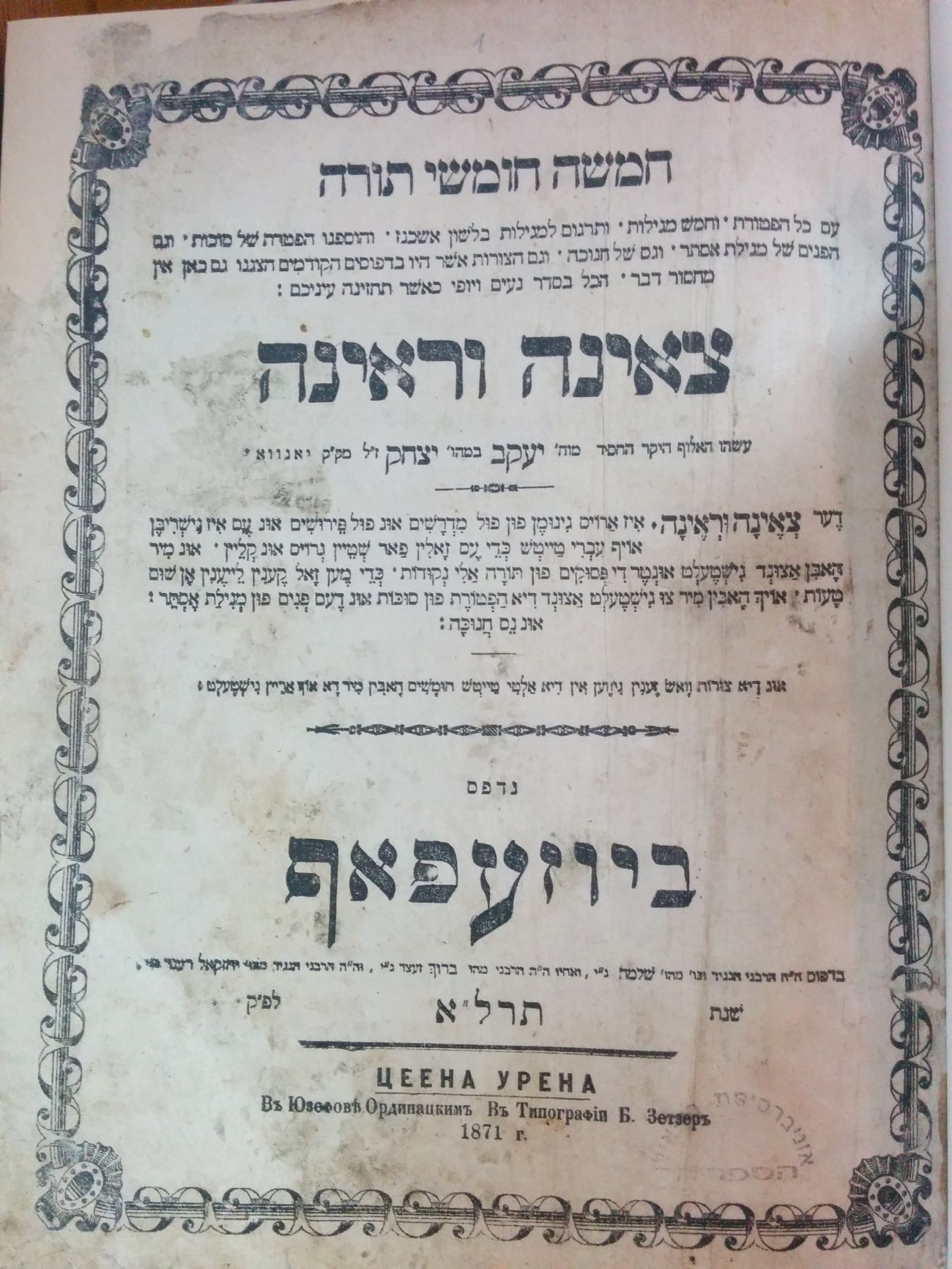 Tzeana Urena Book, 1871